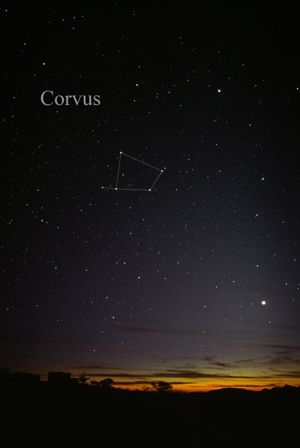 Photography of the constellation Corvus, the crow